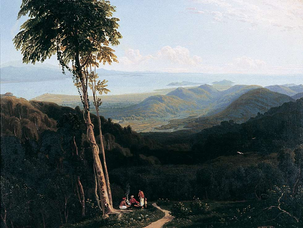 Title: View from Penang Hill Media: Oil Width: 530 mm (21 in) Height: 710 mm (28 in) Year of creation: 1817 Mode of acquisition: Purchased 1979 (State Government)